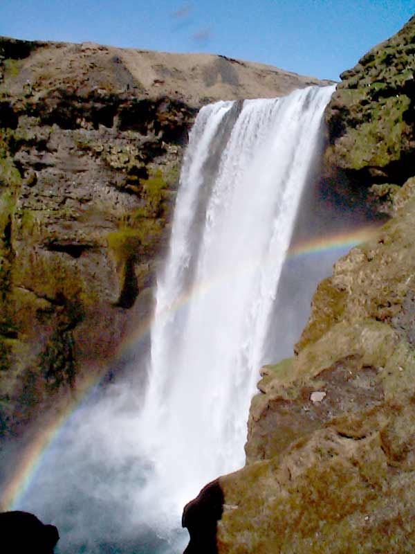 Skógafoss waterfall on Iceland.